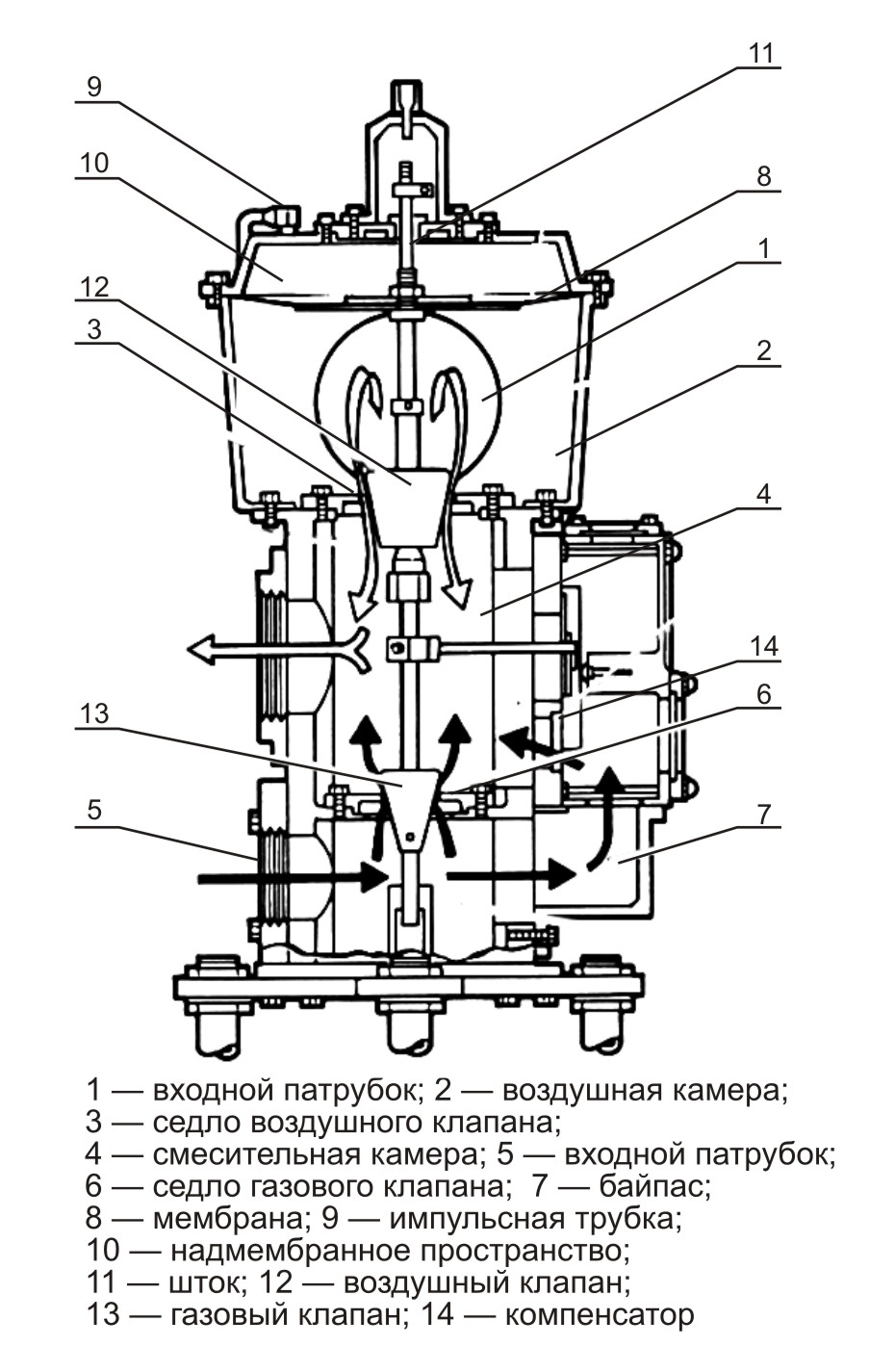 Устройство клапана "Consta-Mix"